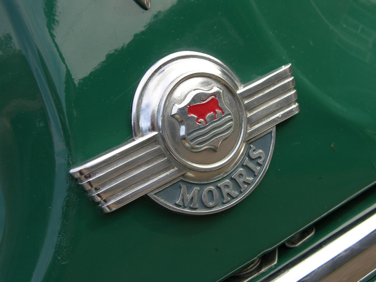 1949 Morris Minor MM tourer type: SMM chassis: 25233